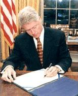 In the Oval Office, President Clinton signing into law S. 2392 the Year 2000 Information and Readiness Disclosure Act.